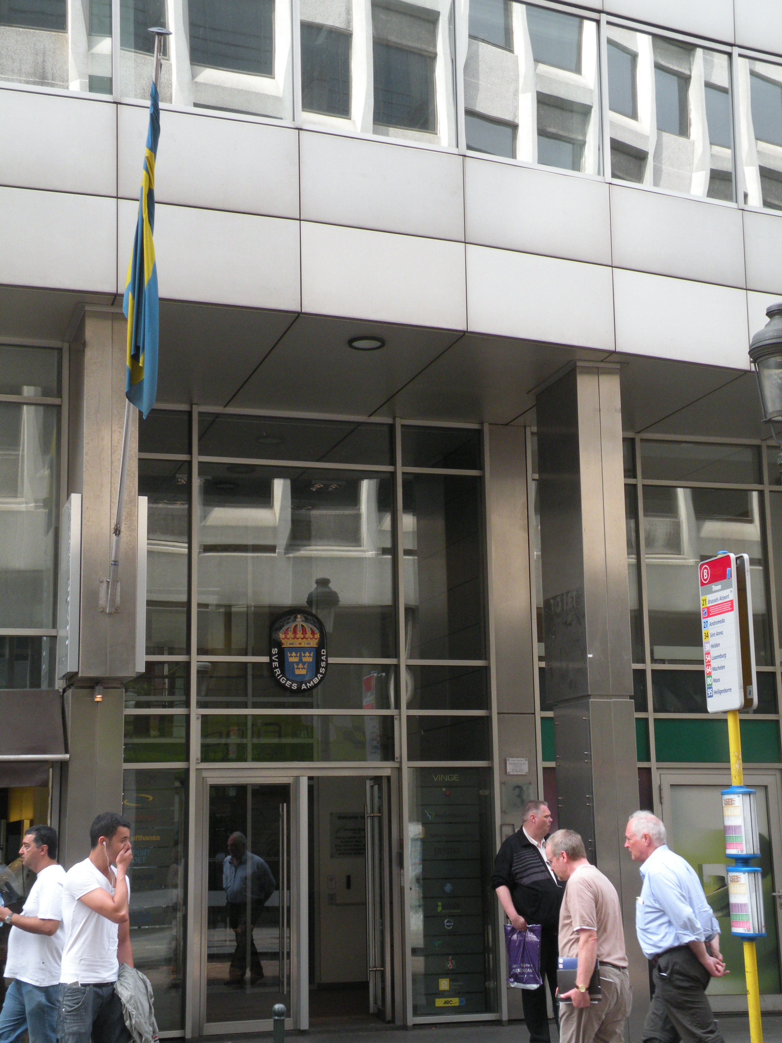 Former Swedish embassy in Brussels, now a consulate.